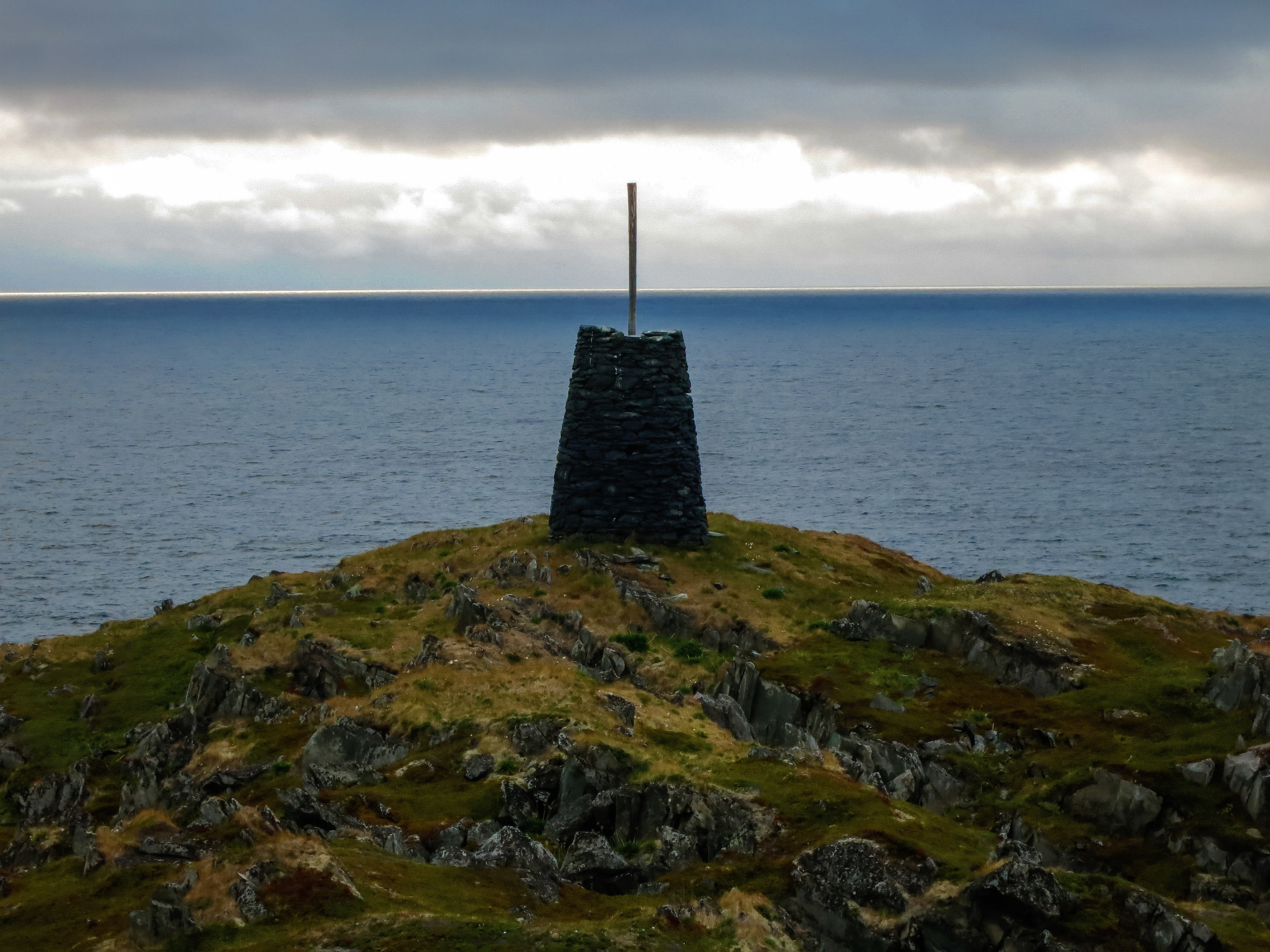 Black-tarred tower in the northern end of Vardøya Island. Legends say that people’s territory ends there, and gate of hell opens nearby. (Finnmark, Norway)